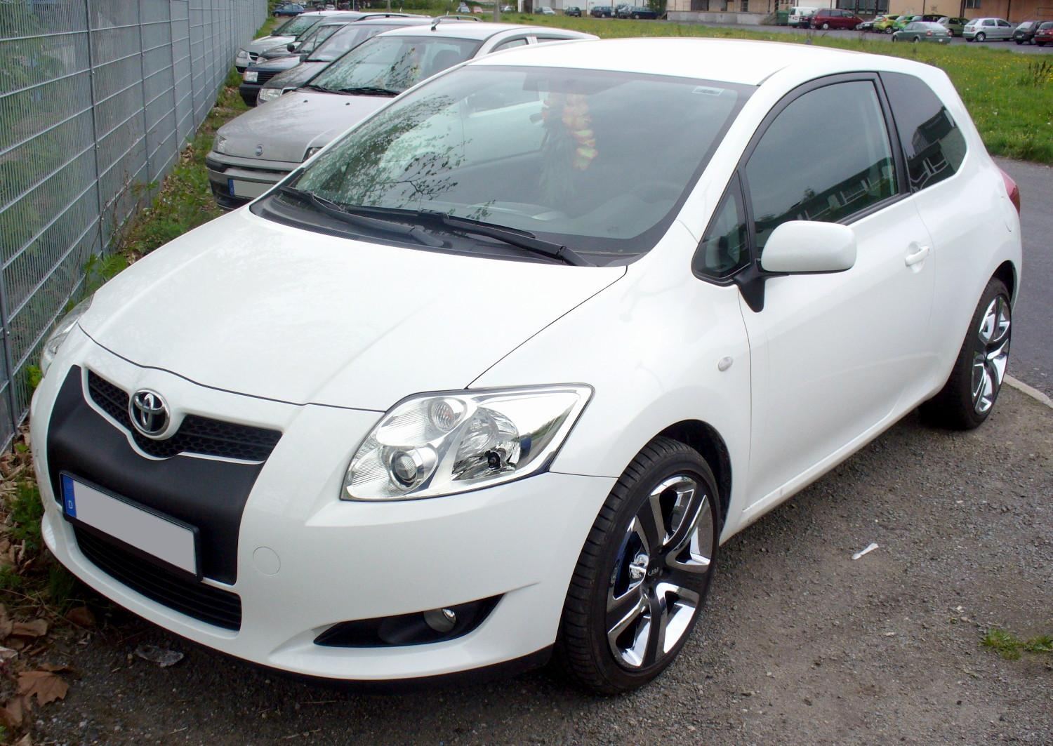 Toyota Auris